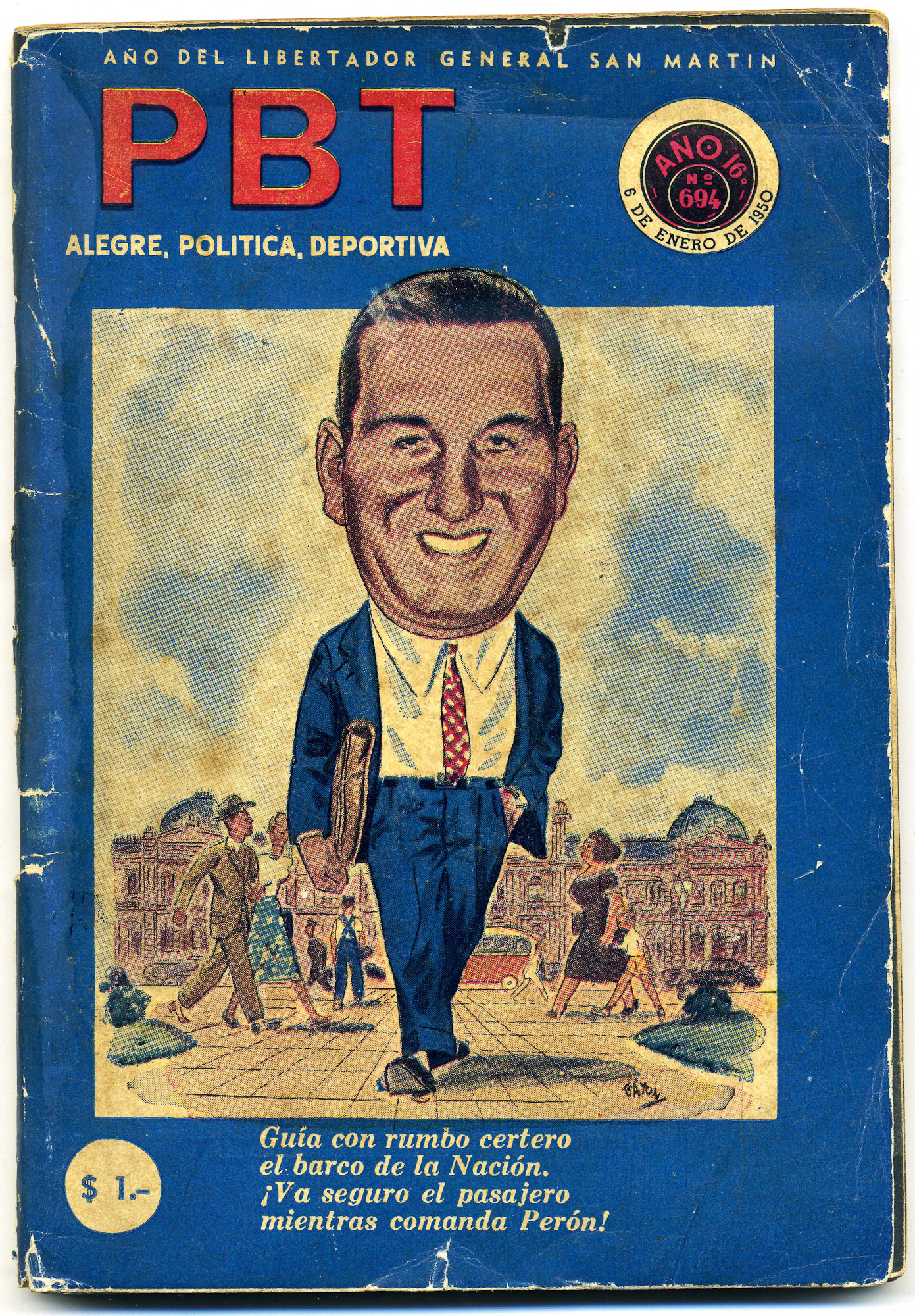 Cover to PBT magazine of Argentina, depicting president Juan Domingo Perón.